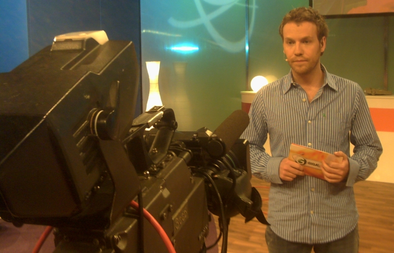 GIGA TV on Games Convention in Leipzig creator:Thomas Richter/user:THOMAS